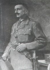 Photo of Victoria Cross recipient Edmond William Costello, migrated from the Victoria Cross Reference site with permission. Photo submitted by Neil Hutton.